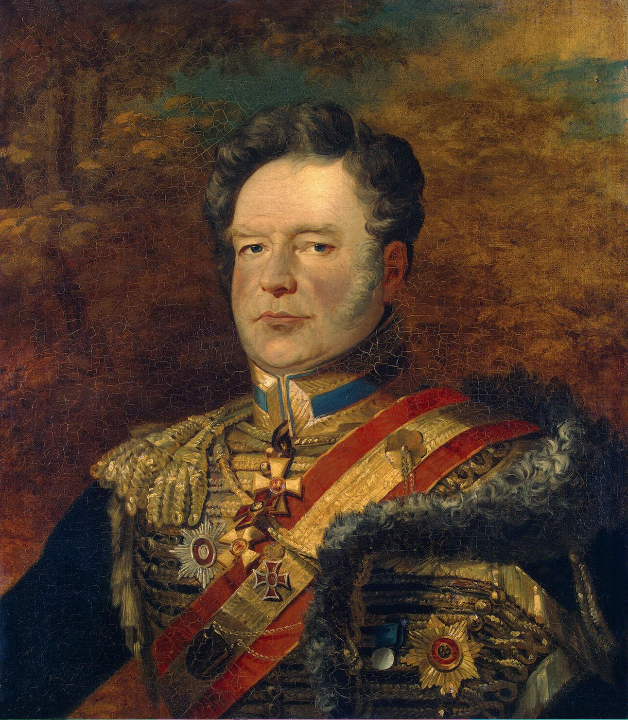 Fyodor Vasilyevich Ridiger (12.1783 – 11.06.1856) russian general